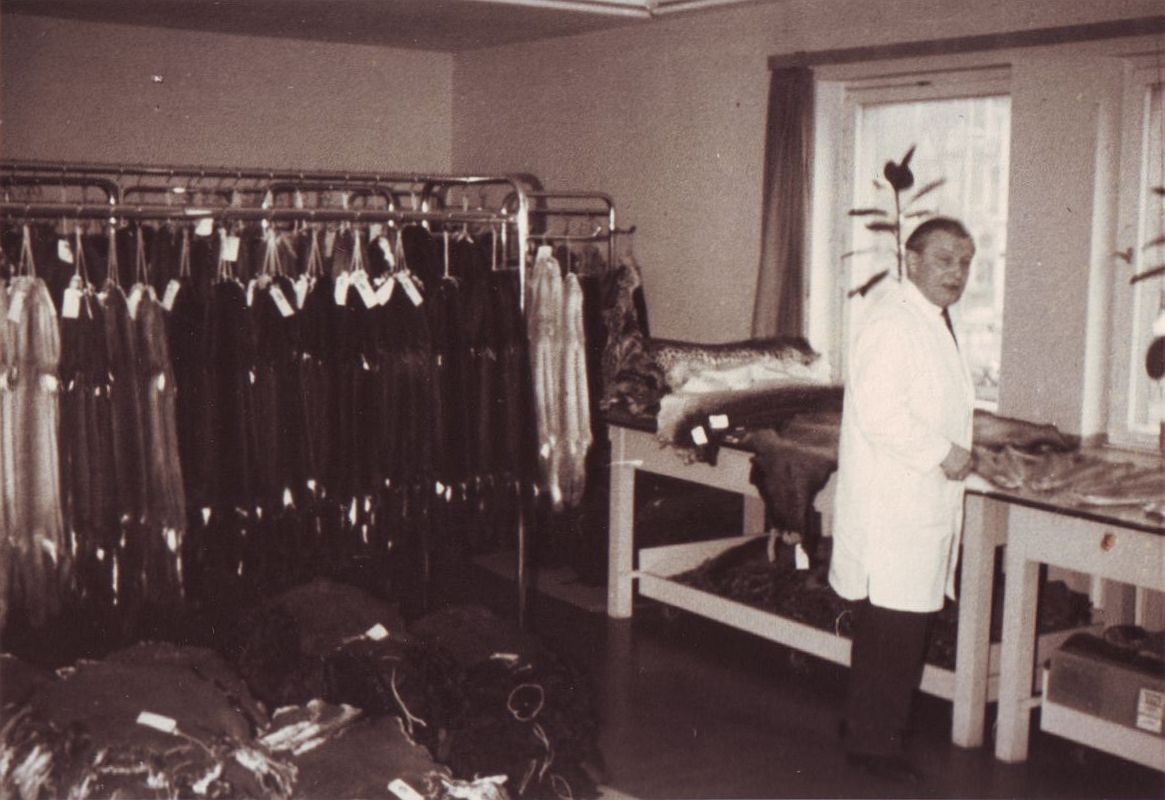 One of the photographs taken around or relating to the fur trade center Niddastrasse, Frankfurt am Main, Germany.